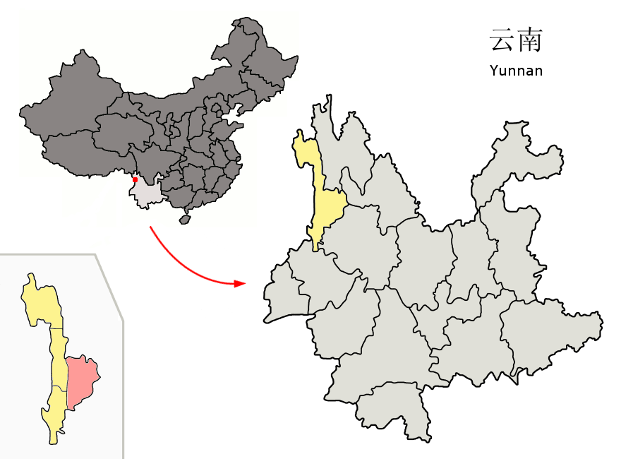 Location of Lanping County (pink) and Nujiang Prefecture (yellow) within Yunnan province of China Map drawn in september 2007 using various sources, mainly : Yunnan province administrative regions GIS data: 1:1M, County level, 1990 Yunnan Counties map from